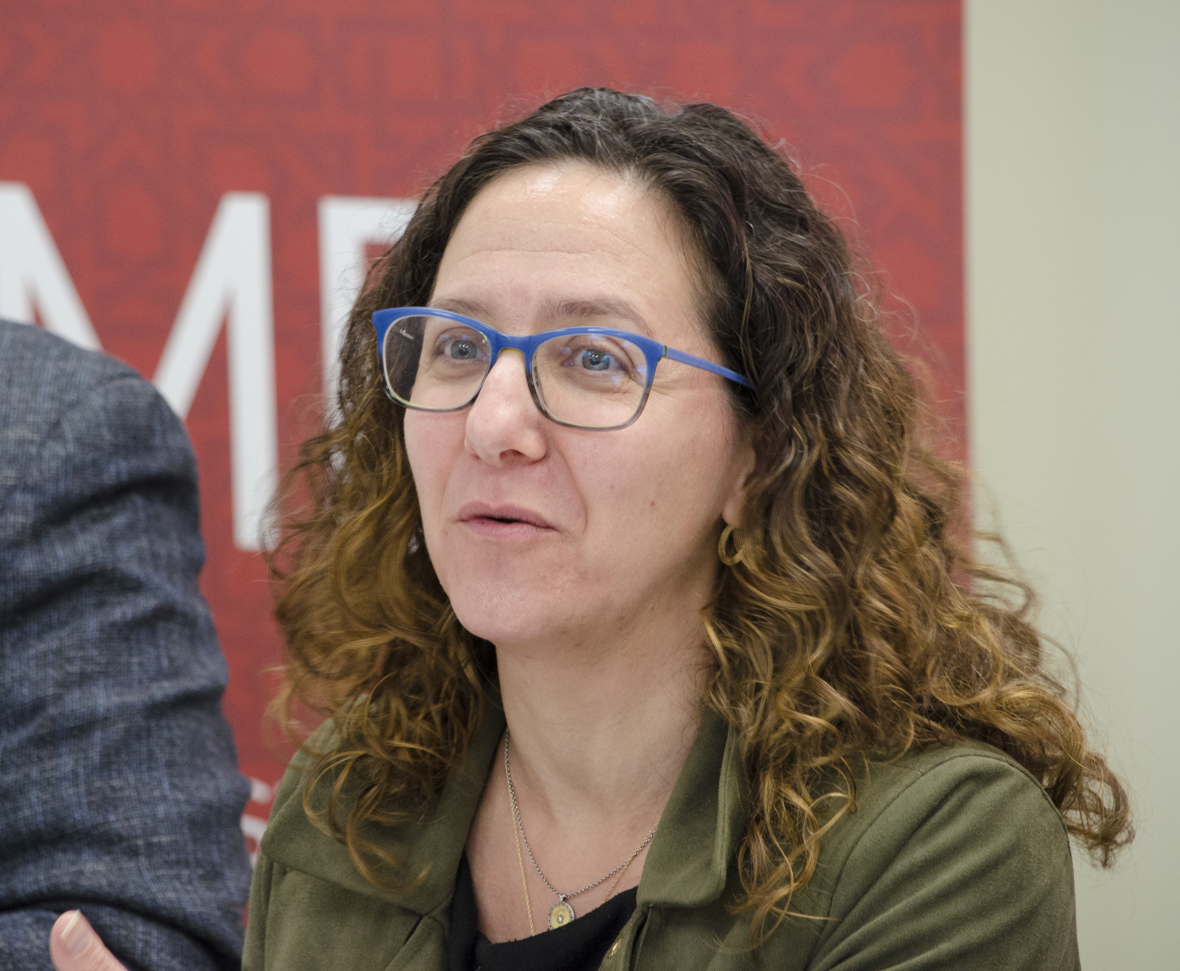 Mohammed bin Salman's Saudi Arabia: A Deeper Look Saudi journalist, Global Opinions columnist for the Washington Post, and former editor-in-chief of Al-Arab News Channel Jamal Khashoggi offers remarks during POMED's "Mohammed bin Salman's Saudi Arabia: A Deeper Look." Jamal Khashoggi Saudi journalist; Global Opinions columnist, Washington Post; Former editor-in-chief Al-Arab News Channel Tamara Cofman Wittes Senior Fellow, Center for Middle East Policy, Brookings Institution Andrew Miller (Moderator) Deputy Director for Policy, POMED; Former White House and State Department Middle East Official Hala Aldosari Scholar-activist from Saudi Arabia; Fellow, Radcliffe Institute for Advanced Study at Harvard University Kristian Ulrichsen Middle East Fellow, Rice University's Baker Institute for Public Policy; Associate Fellow, Chatham House March 21, 2018 Project on Middle East Democracy Washington, DC